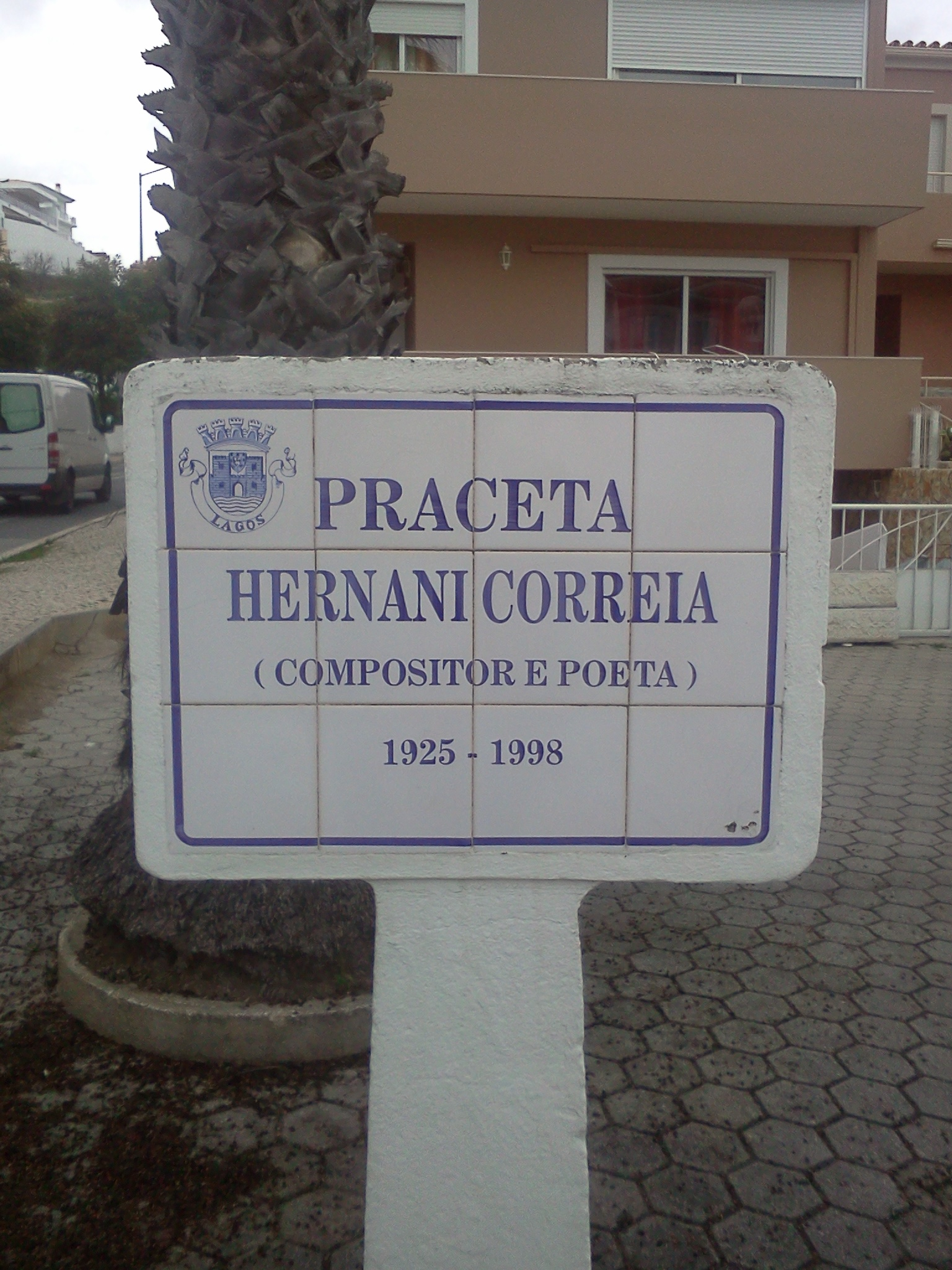 Street sign of Praceta Hernani Correia, in the city of Lagos, in southern Portugal.